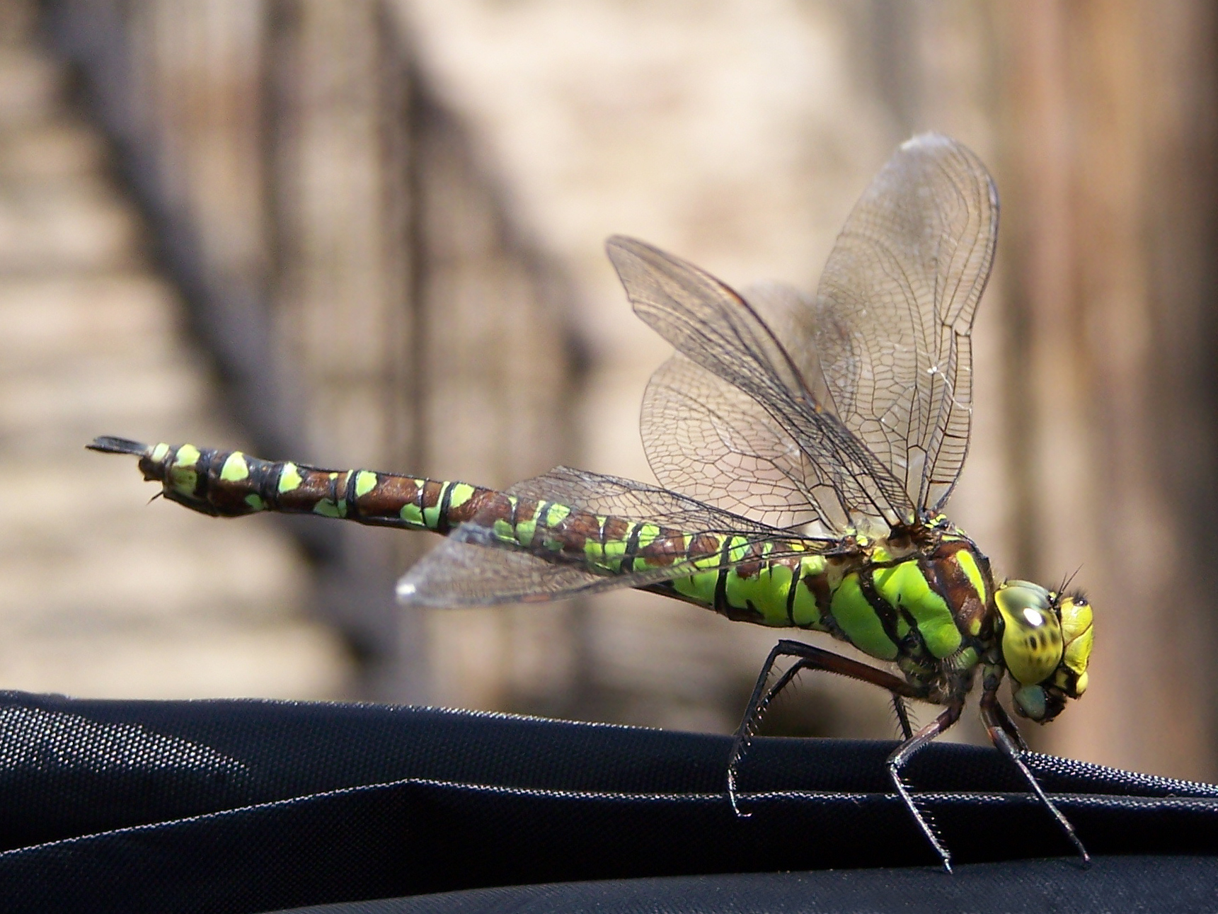 Female Southern Hawker.